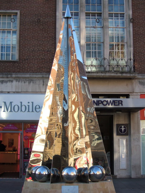 Exeter Riddle Building on Exeter's High Street are surrealistically reflected in the steel surface of Michael Fairfax's artwork.